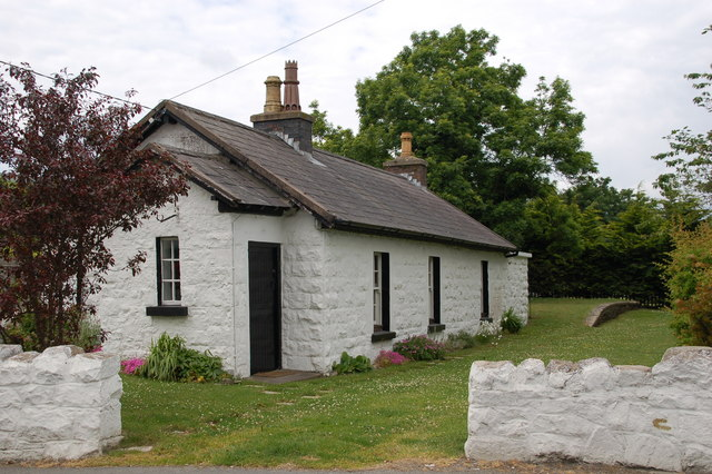 Former railway station, Omeath, Carlingford Lough. The Dundalk, Newry and Greenore railway from Dundalk to Newry (Dublin Bridge) opened in 1876. It was owned by the LMS and remained independent of the GNR(I) and CIE until closure on 31 December 1951. It was formally wound up in 1957. This is Omeath station, in immaculate condition with platform still intact, 55 years after closure.